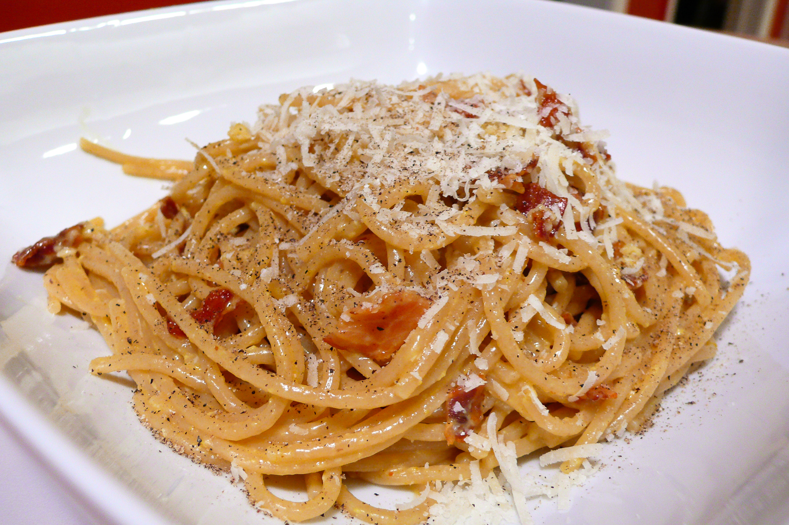 The classic Italian pasta dish spaghetti carbonara, here served in Canada